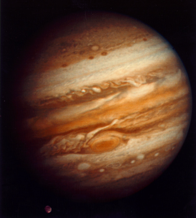 Voyager 1 image of Jupitor and Ganymede while the spacecraft was a little over a month away from closest approach, at a distance of over 40 million km (25 million miles). The Great Red Spot, a giant circulating feature in the atmosphere, has been observed for hundreds of years. Ganymede, Jupiter's largest satellite, is at the lower left. Jupiter is 71,492 km in diameter and North is at 11:30.